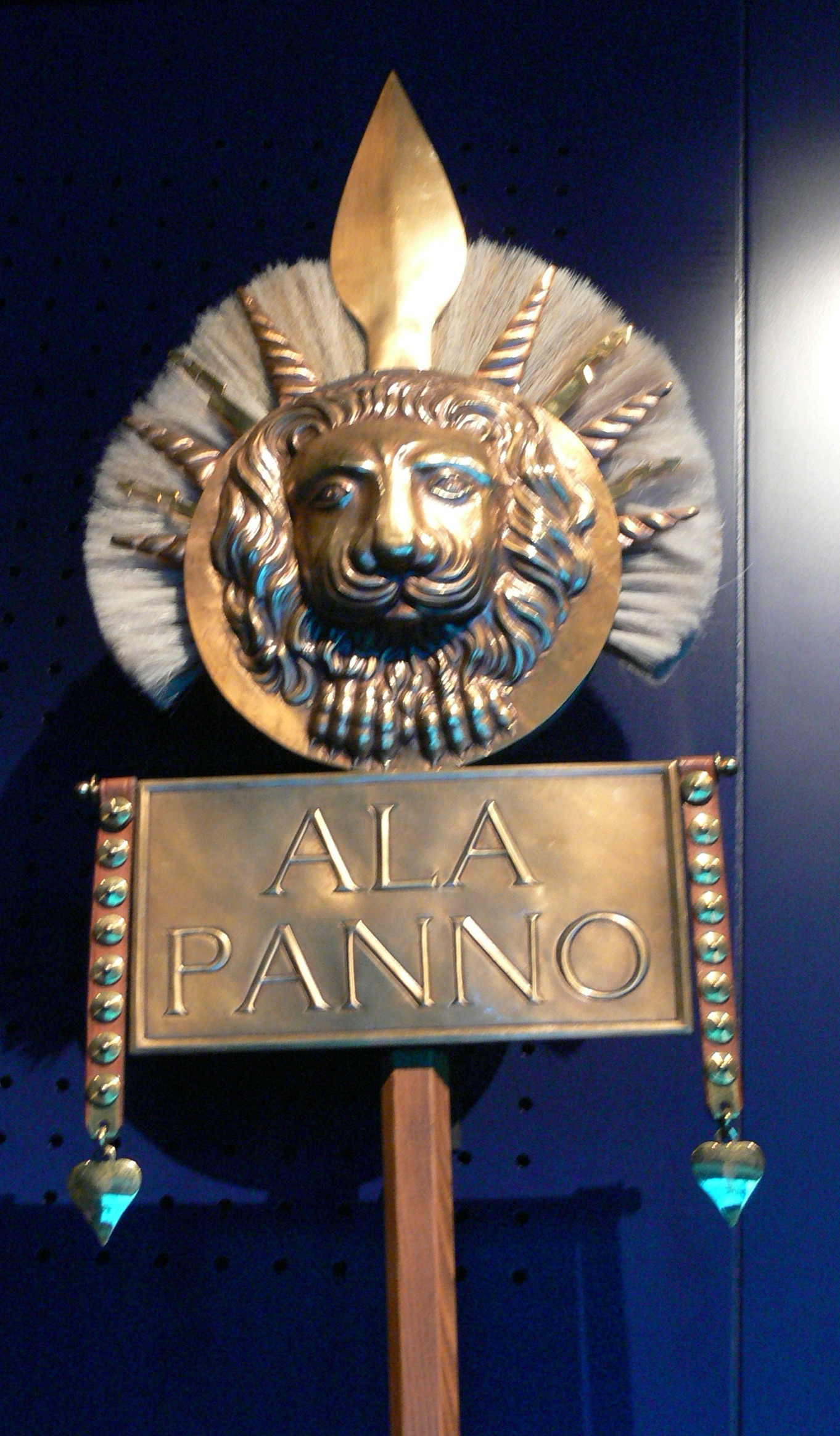 Petronell ( Lower Austria ). Roman Museum: Signum of the Ala I Pannoniorum Tampiana( replica ).